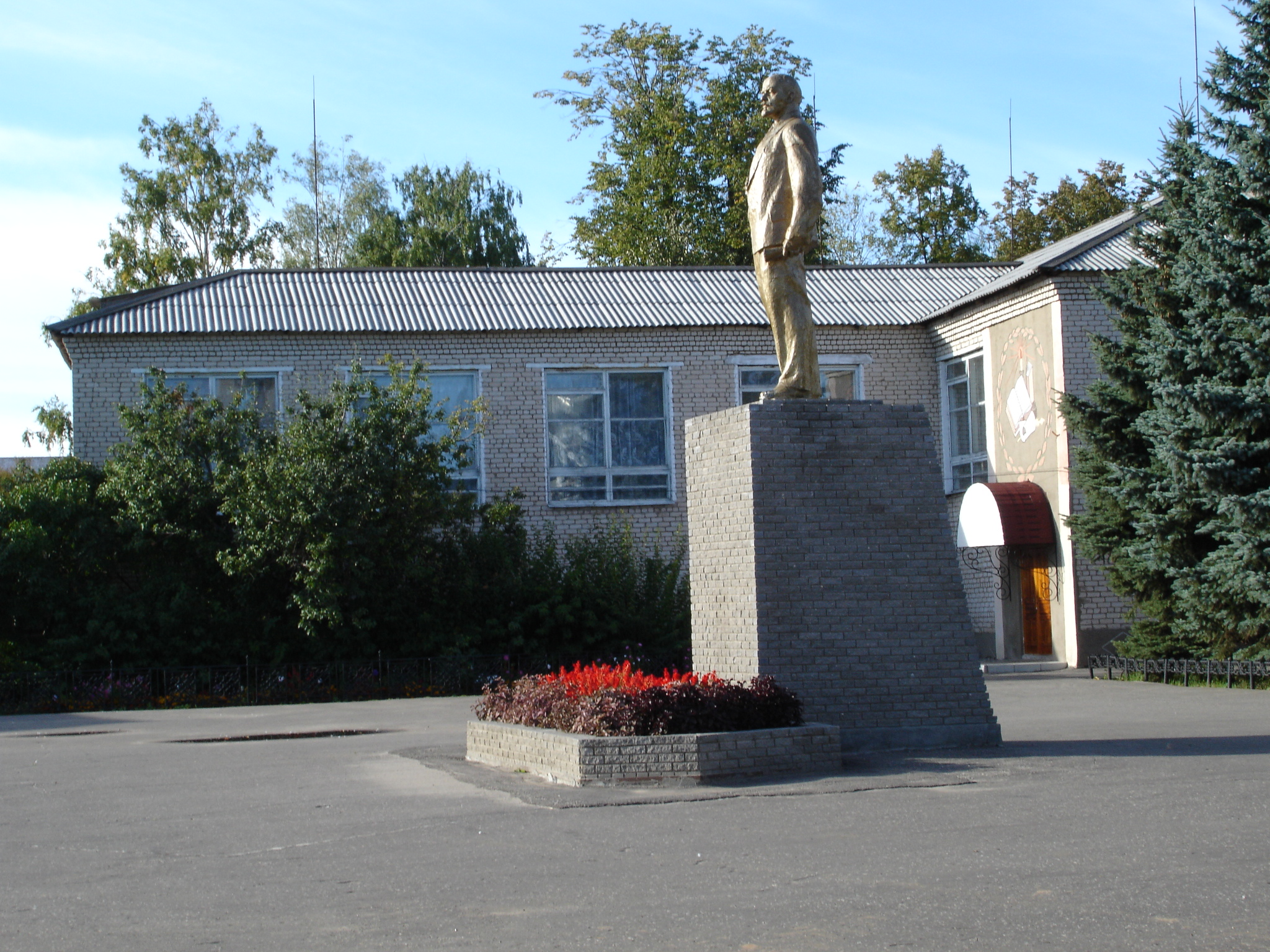 Lenin's monument in Sharanga, Russia